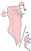 Map of Bahrain showing Al Hadd municipality. The municipalities were dissolved in 2002 and replaced with governorates.